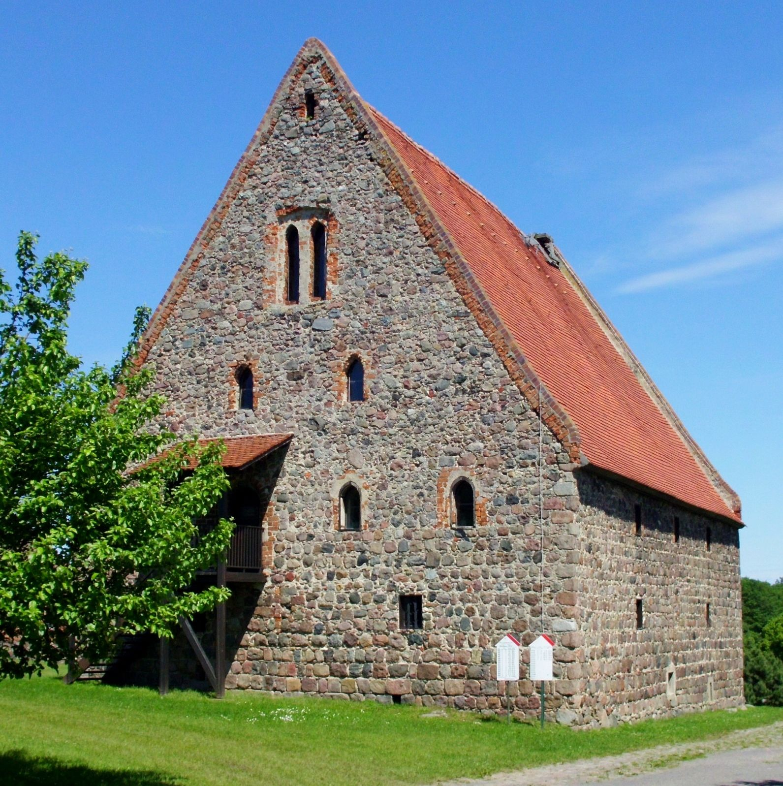 Storehouse (early 14th century)